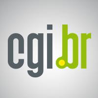 logo of the Brazilian Internet Steering Committee ("Comitê Gestor da Internet no Brasil"). 2017.